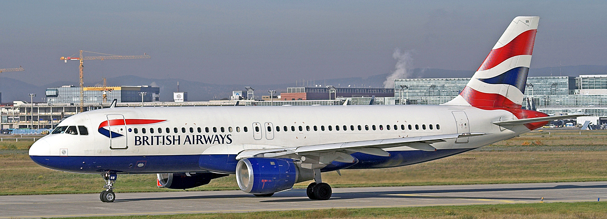 British Airways Airbus A320-100 G-BUSB in Frankfurt am Main.